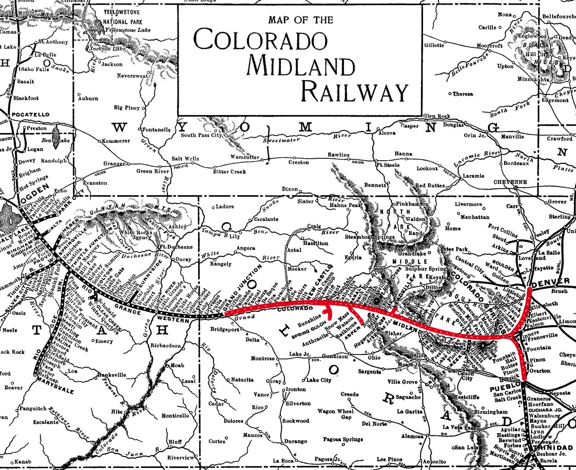 ca. 1900 map of the Colorado Midland Railway, unfortunately cropped at the edges